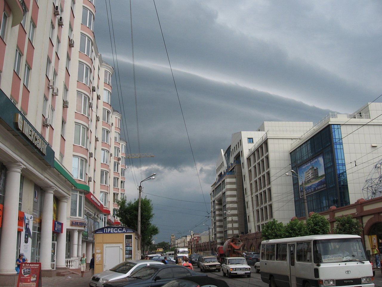 Panteleymonivska Street, Odessa, Ukraine